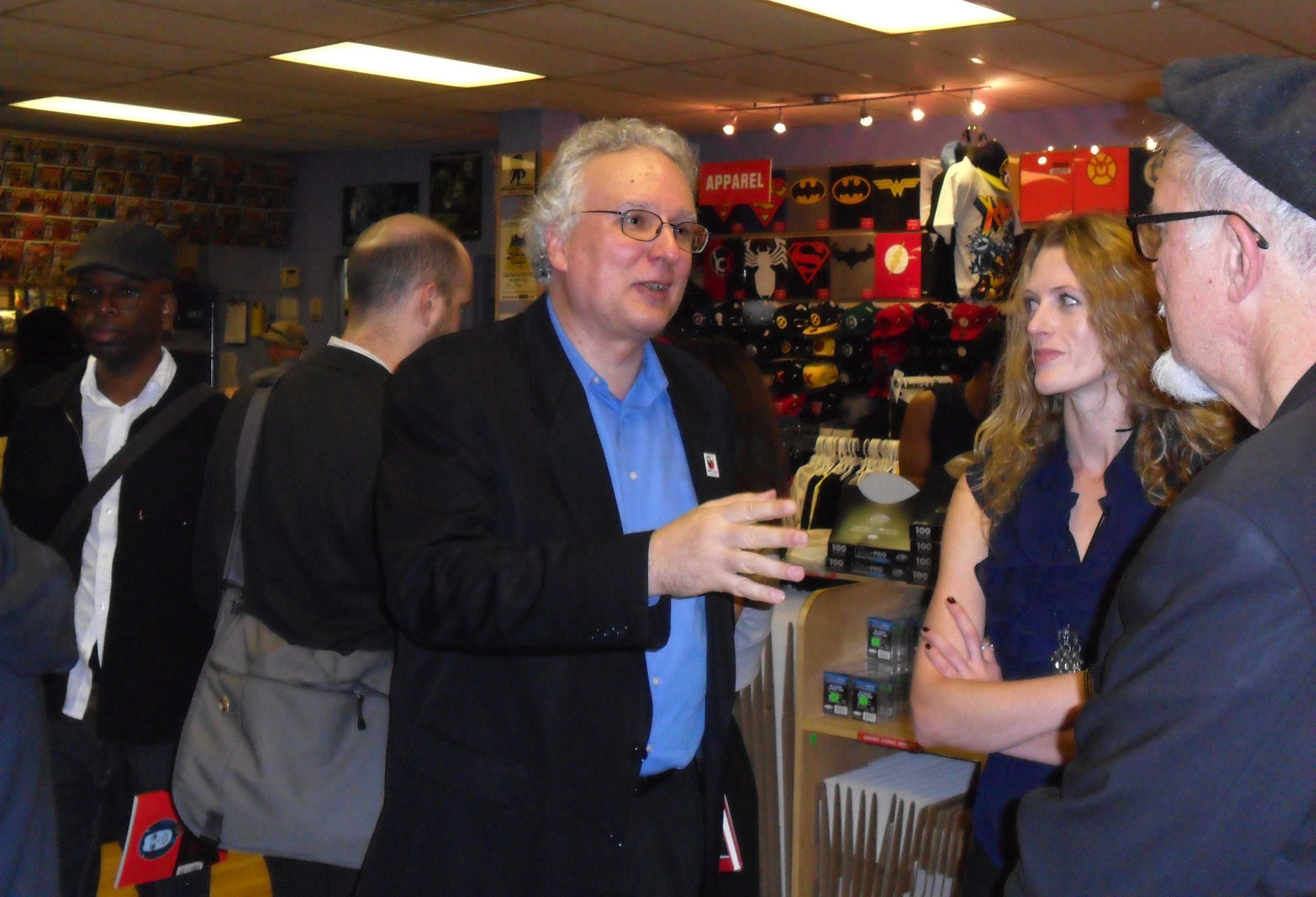 Comic book editor Jim Salicrup speaking with friends at a book signing for Dean Haspiel at Midtown Comics East in Manhattan, September 15, 2010. Photo by Luigi Novi. This photo may be used, modified and published for any purpose, only if the photographer is visibly credited in each instance in which it is used. (See licensing information below.) For more information on my photos, you can contact me here.